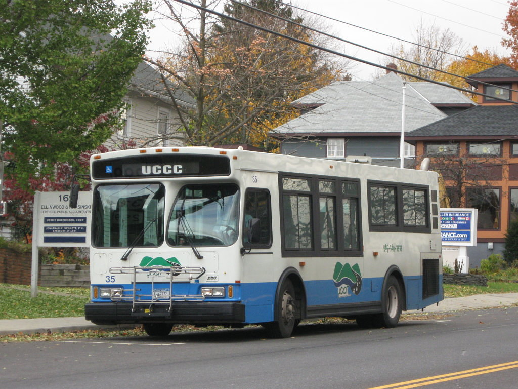 Ulster County Area Transit Orion VII 07.503 #35 lays over in New Paltz, New York.